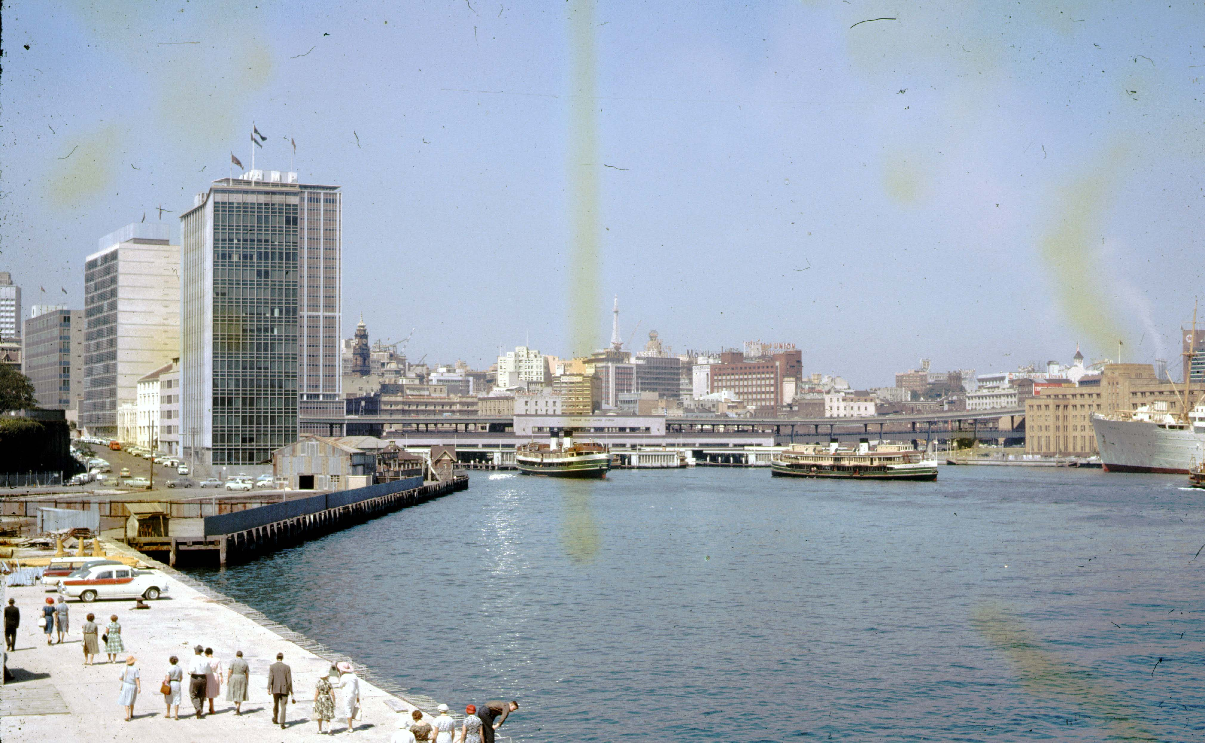 Circular Quay taken from the Opera House steps (during construction) Taken on Kodachrome1, on 2 June 1963.